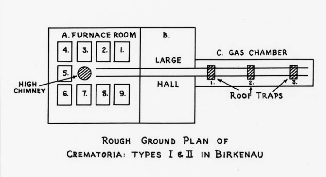 Sketch of the Auschwitz-Birkenau gas chambers and crematoria from the English-language version of the Vrba-Wetzler report, November 1944, first written in Slovakian and German, April 1944.